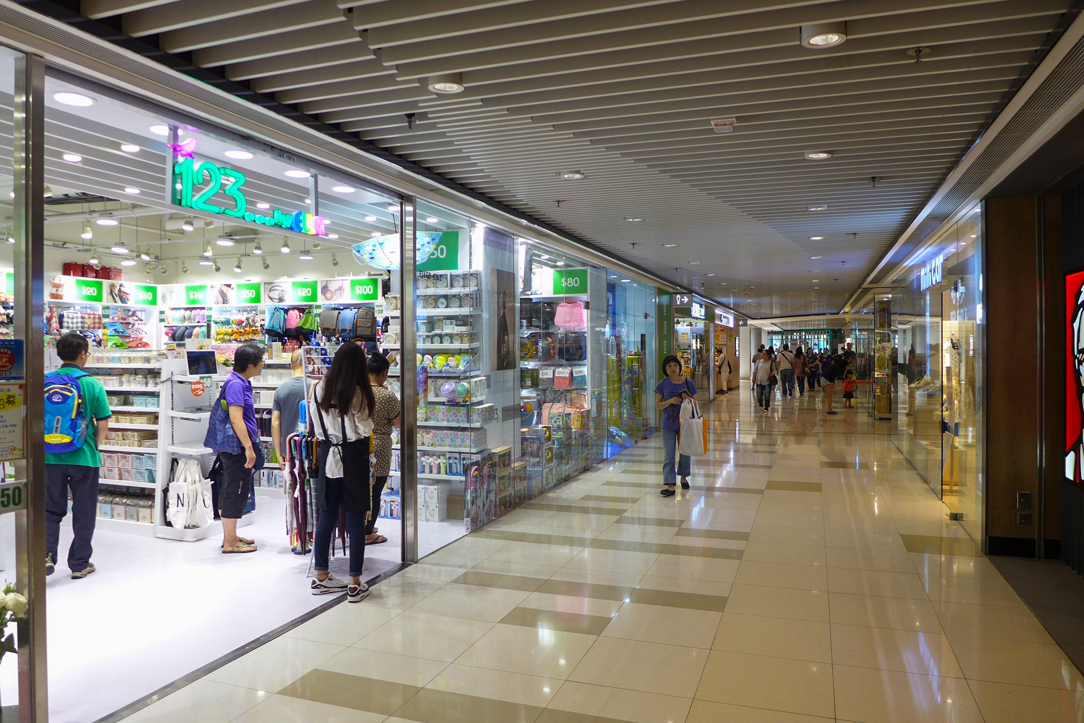 TKO Gateway Level 1 East access